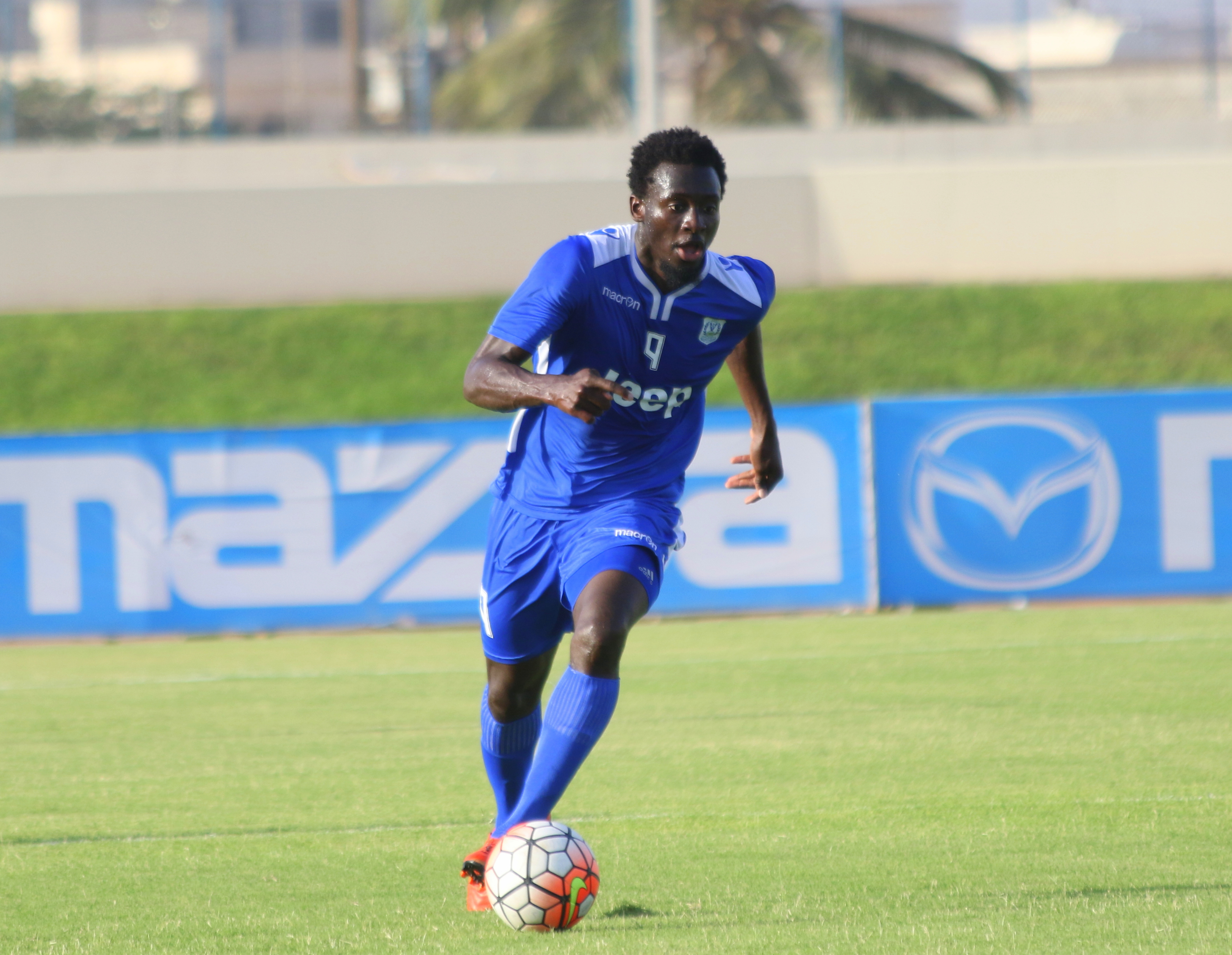 Mamadou Soro Nanga in a match against Al Musannah Club. 20 March 2016 Auqad Sports Complex, Salalah, Oman Photographer : Pratyush Mishra Photographer email id